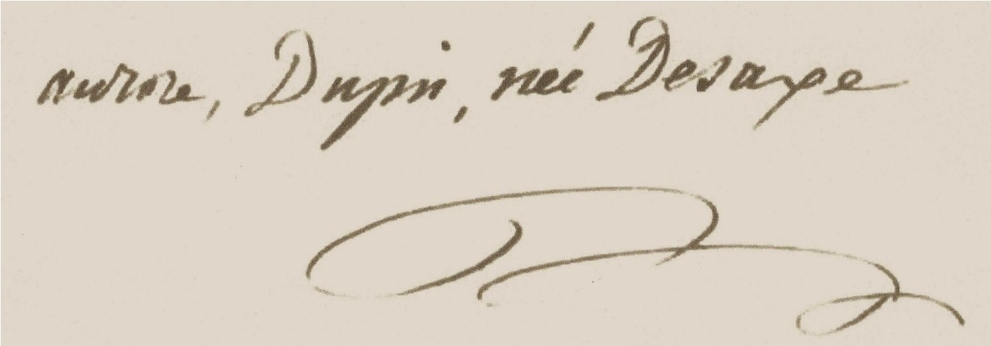 Signature of Marie Aurore of Saxony (1748-1821).